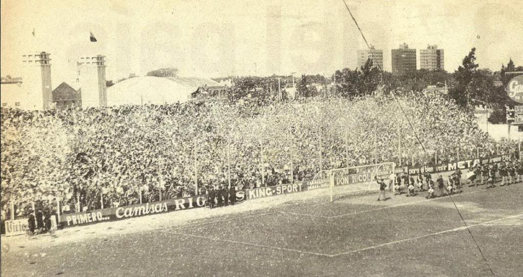 Hinchada de Colón 1976